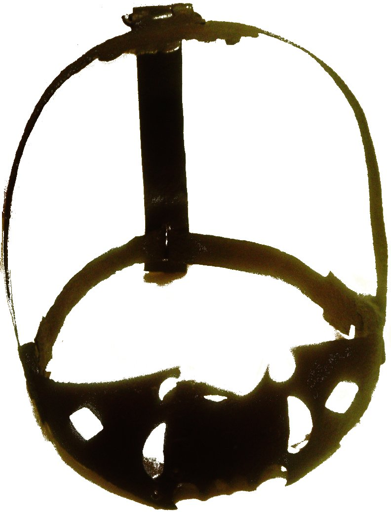 Branks, or Scold's bridle, a medieval instrument used to punish "common scolds", slanderers, or people called cursing. Photo taken at the National Museum of Scotland, Edinburgh